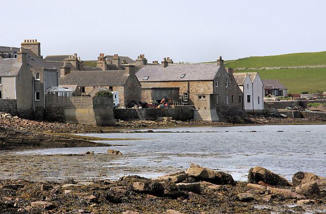 St Margaret's Hope The buildings on the shore at St Margaret's Hope appear to have hardly changed in a century or more. Not a TV aerial in sight!